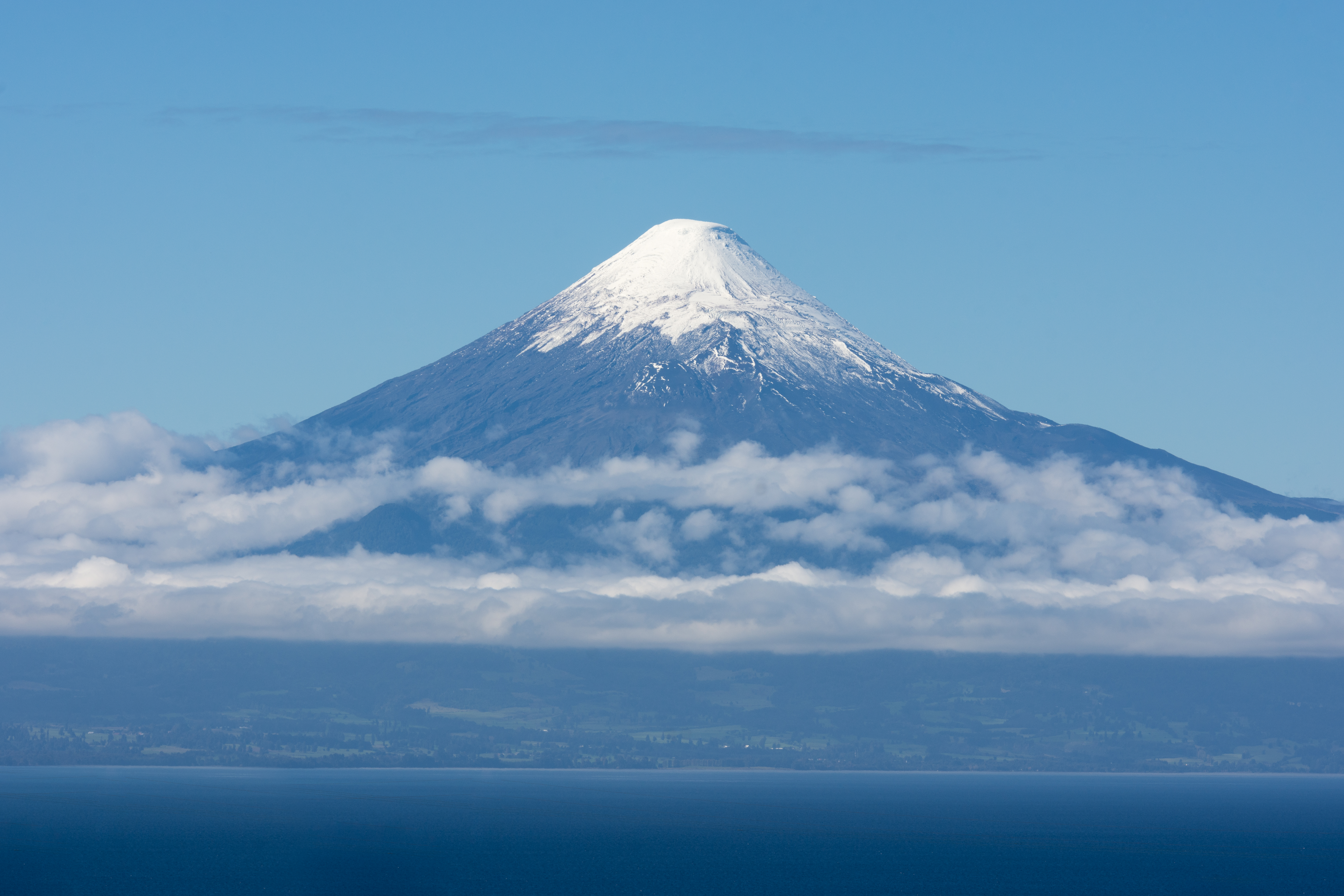 Osorno Volcano is stratovolcano in Chile.